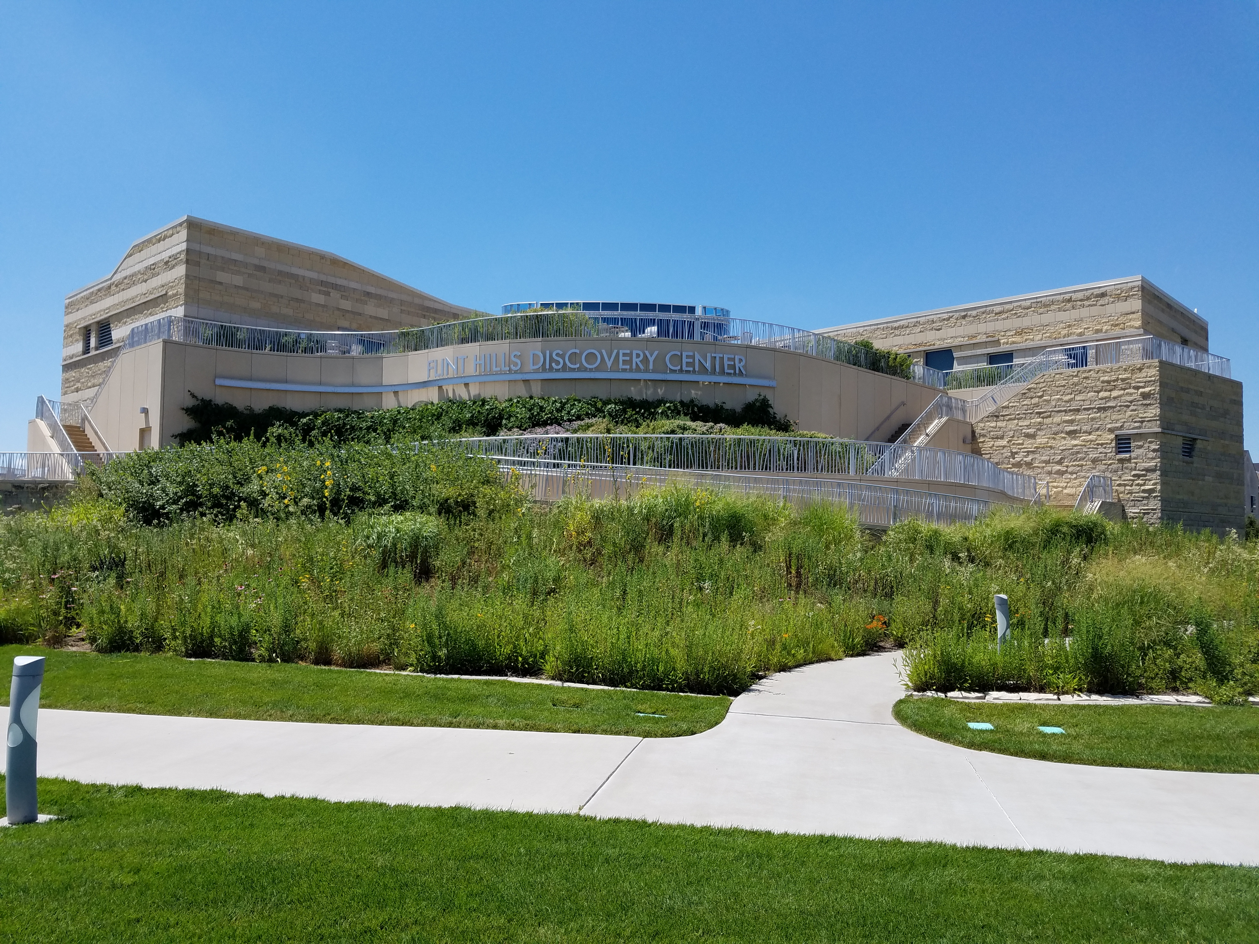 The back side of the Flint Hills Discovery Center in Manhattan, Kansas including its native landscaping